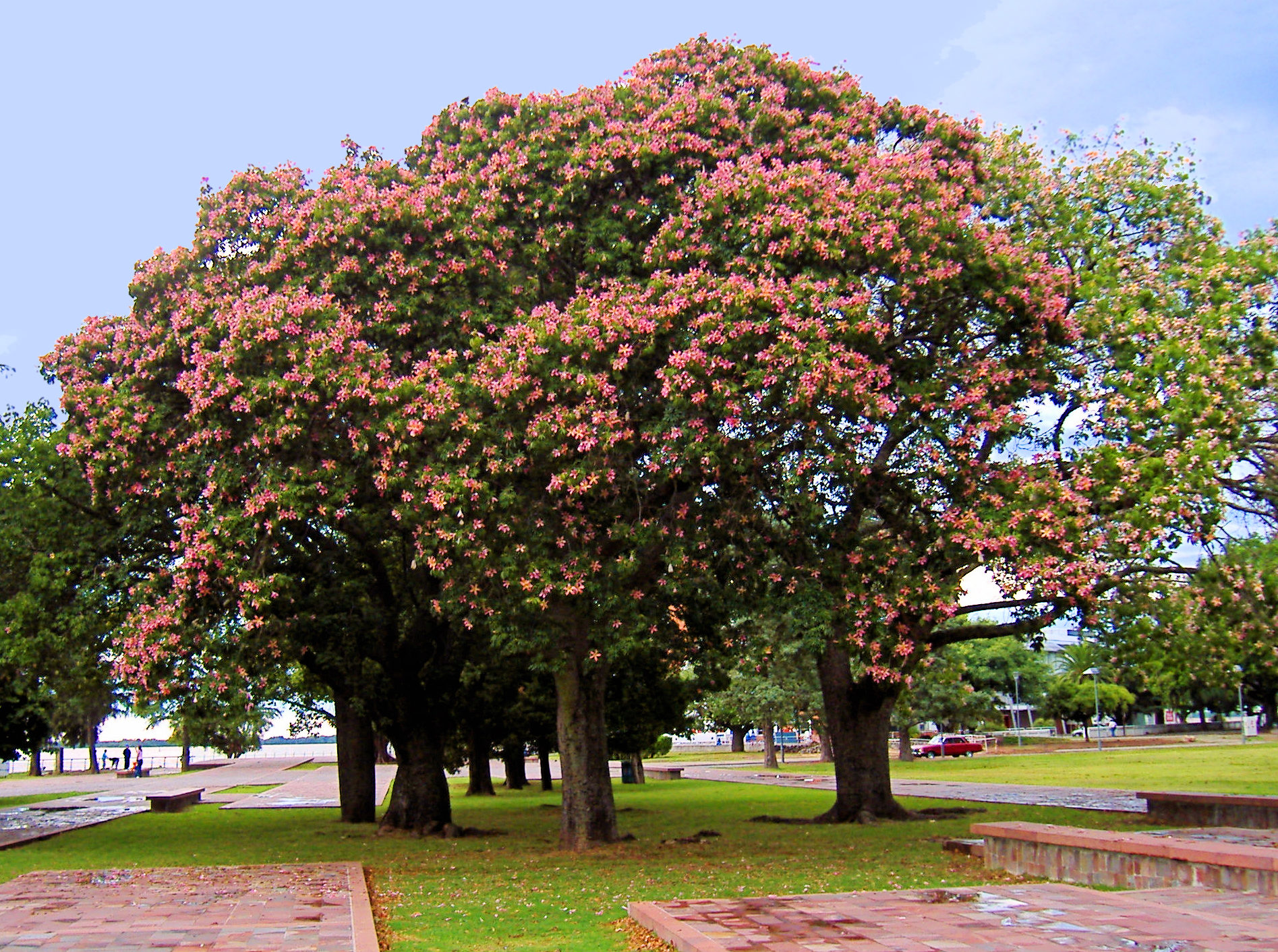 Ceiba speciosa, formerly Chorisia speciosa (in English floss silk tree; in Spanish palo borracho). These specimens are planted at the National Flag Memorial Park in Rosario, Argentina. The picture was taken at the end of the Southern Hemisphere summer. I, Pablo D. Flores, took this picture on 28 February 2006.